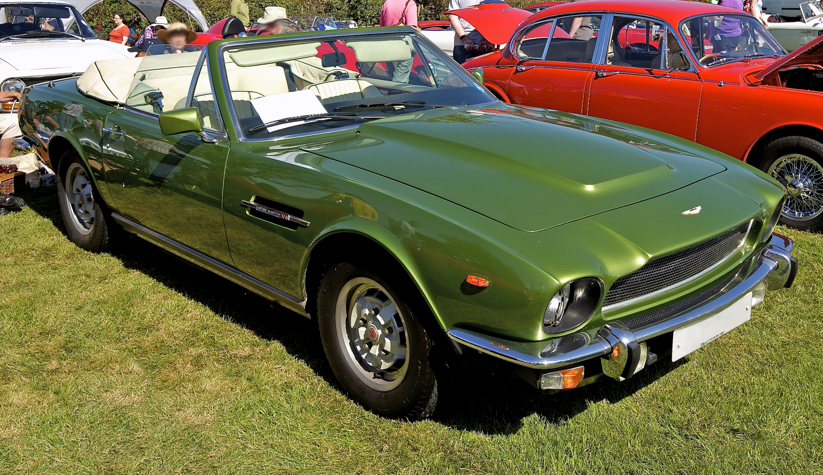 1981 Aston Martin V8 Volante at the Classic Cars By The Lake show, in the UK